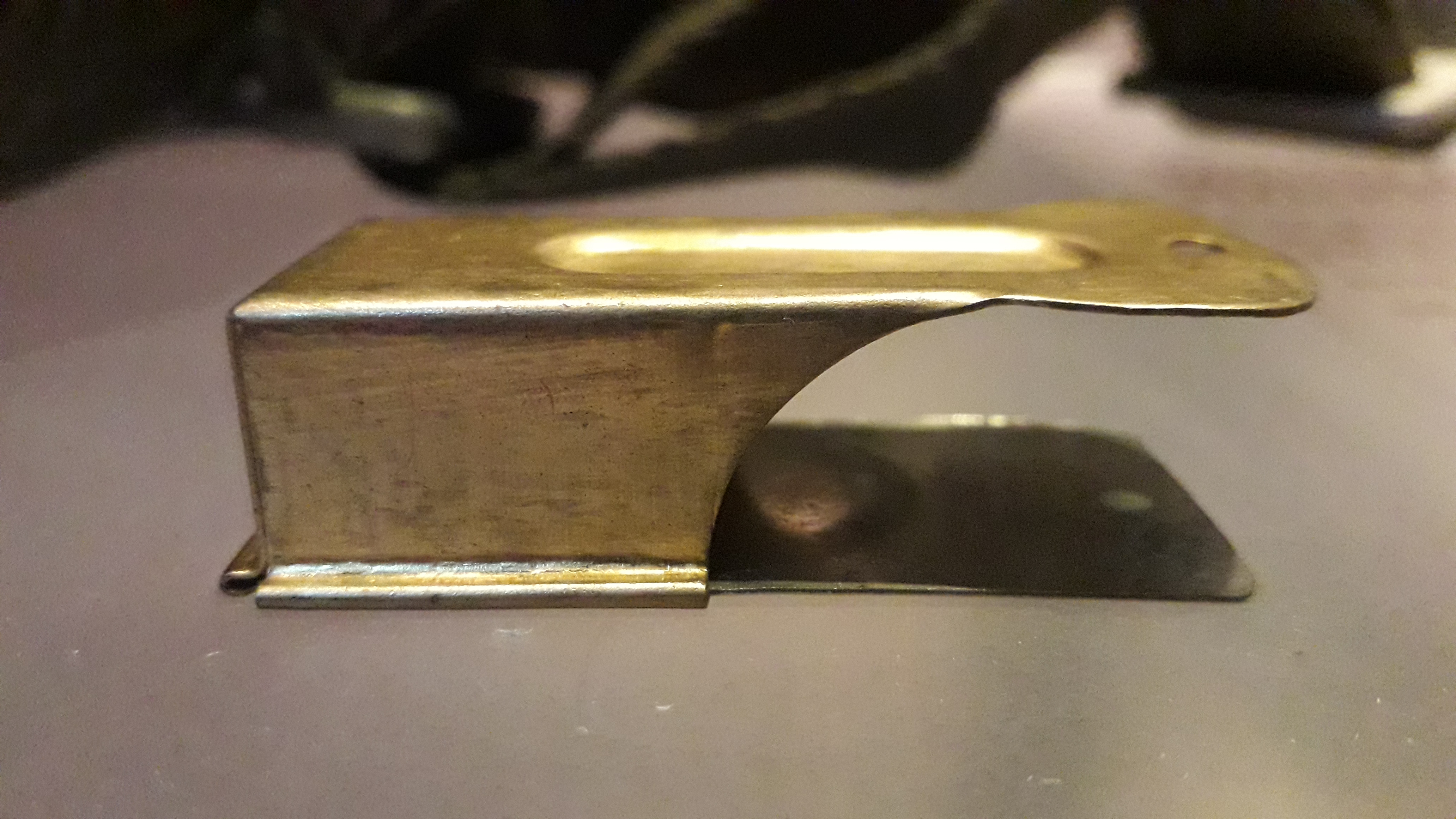 D-Day cricket issued to Allied paratroopers preceding and during Operation Overlord